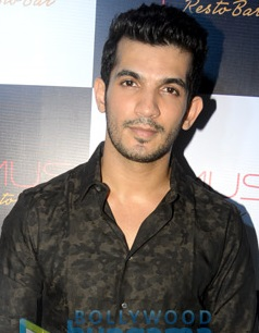 Arjun Bijlani at the launch of Saumya Shetty's resto bar - Hymus